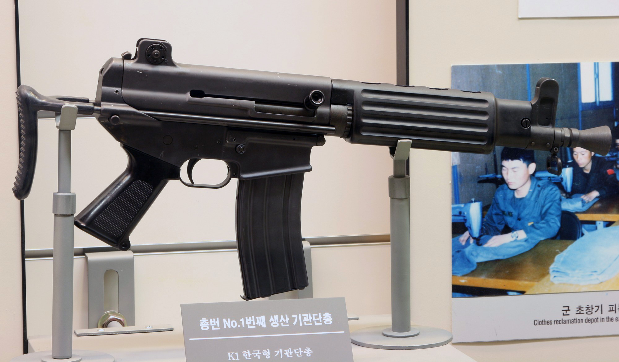 South Korean Daewoo K1 carbine No.1 at the War Memorial of Korea